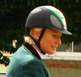 Jessica Kürten at 2008 Dublin Horse Show (IRL), CSIO*****, Samsung Super League 2008